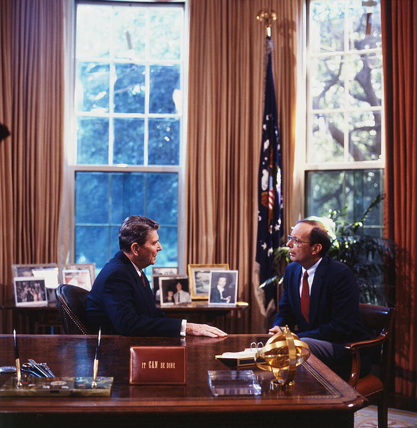 White House. President Ronald Reagan, at his desk in the Oval Office, speaking with republican senator Alfonse D'Amato of New York. Washington, D.C., 1987, LC-DIG-pplot-13557-00710 (digital file from LC-HS505-22)